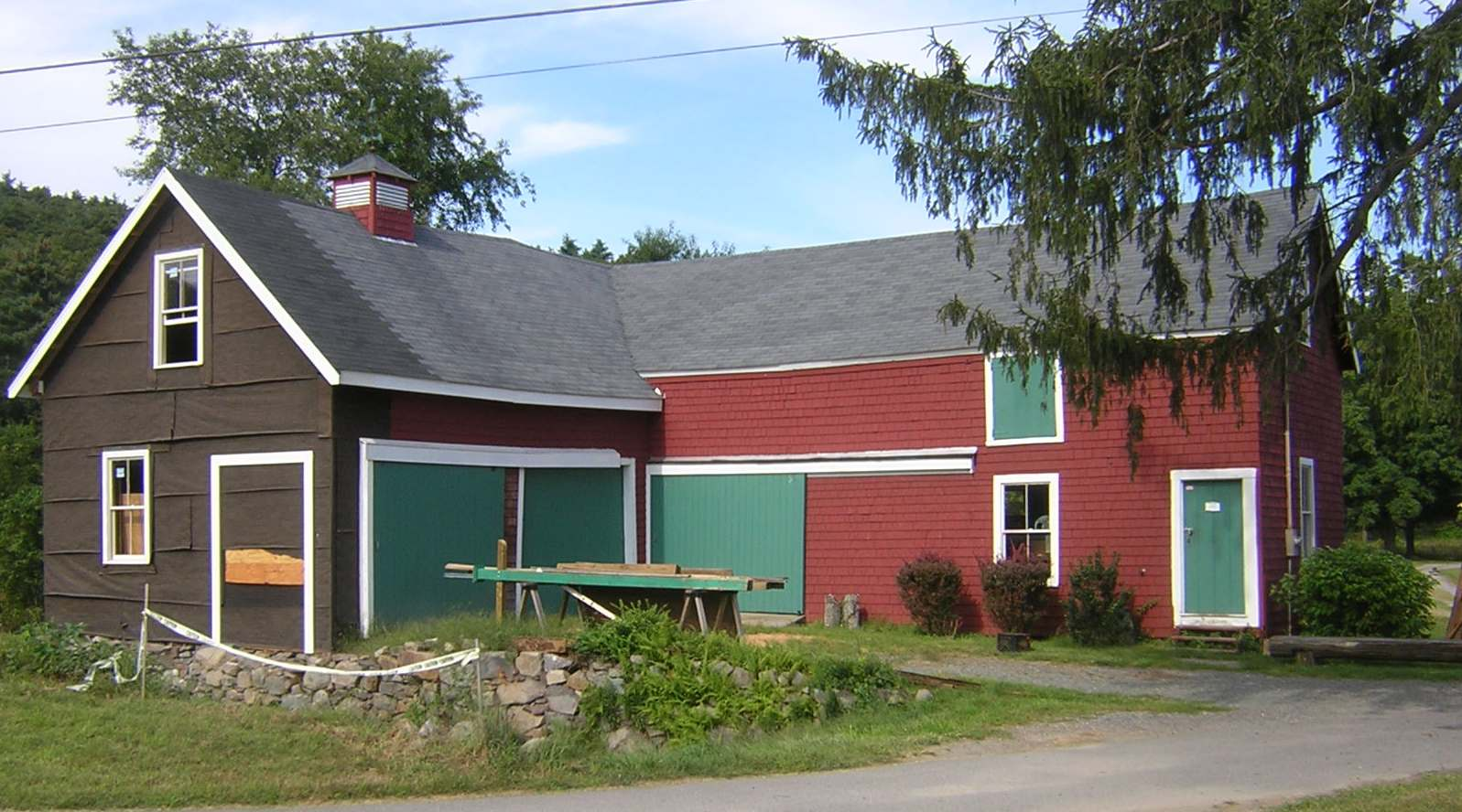 Old Barn at Brookwood Farm, Canton, Massachusetts, south and west sides (nb NRIS shows location as Milton, MA, but it's actually in Canton) NRHP #80000660